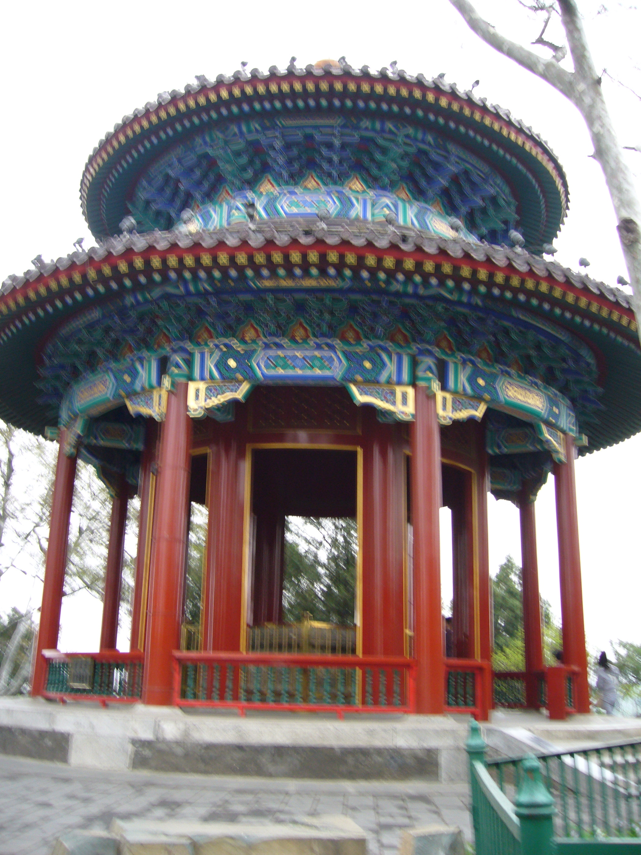 Guanmiao Pavillion on Coal Hill in Beijing